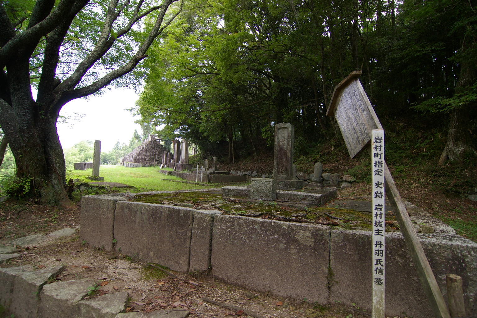 Daimyo Cemetery (Iwamura, Ena City, Gifu Pref., Japan)